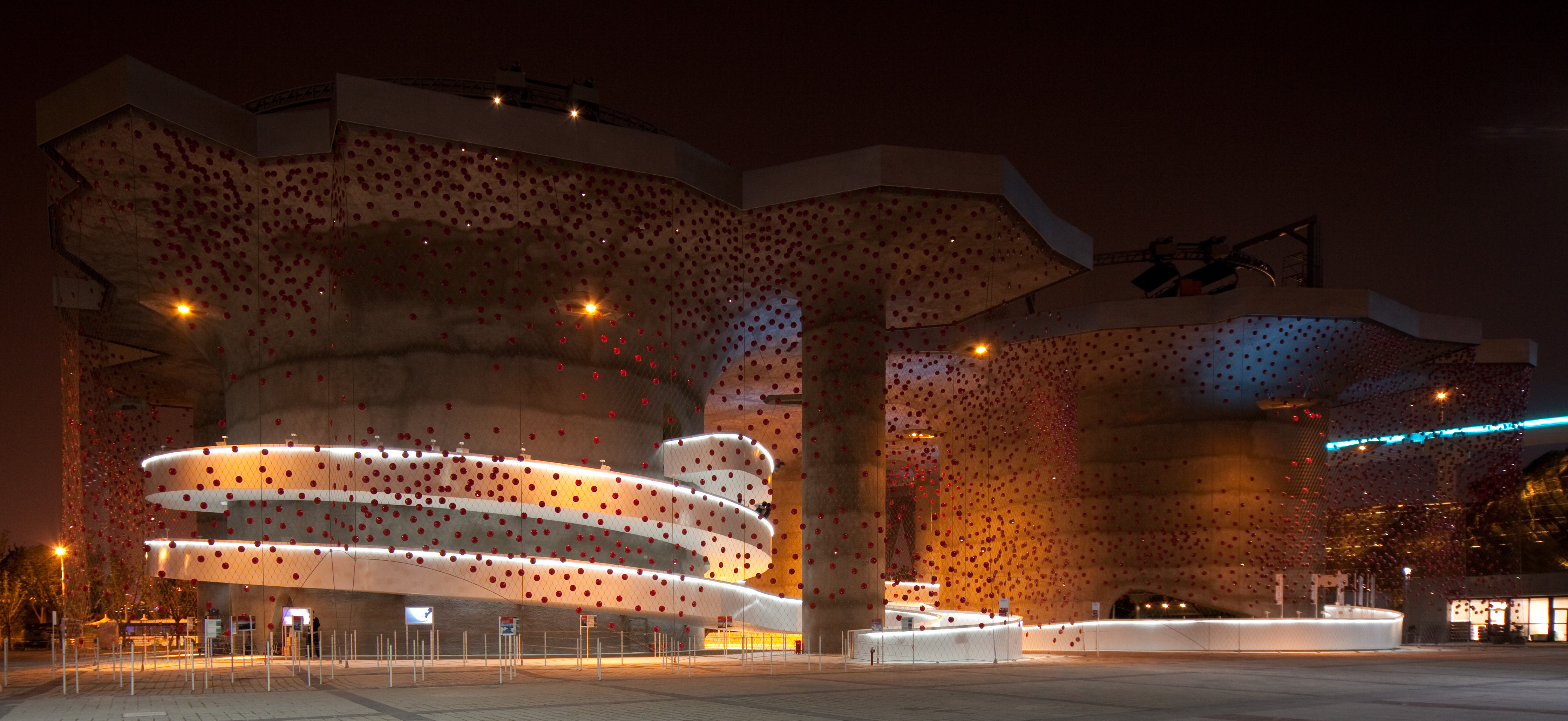 Swiss Pavilion Expo 2010 Shanghai: At night